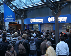 Kjell & Company's opening in Nordstan